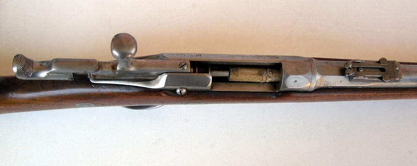 Chassepot receiver